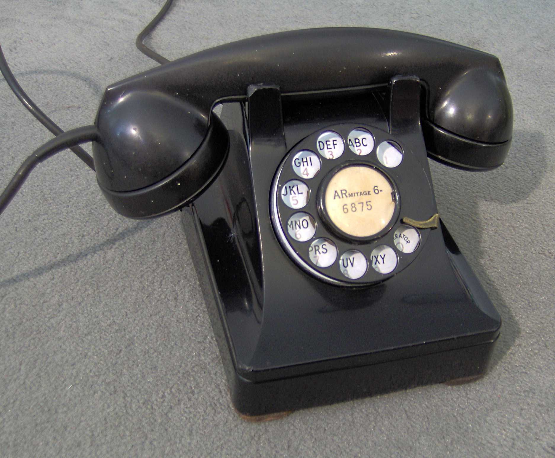 A Western Electric Model 302 telephone from my own collection. Self taken by ProhibitOnions, 2007.